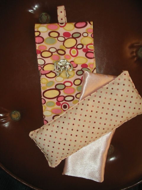 photo of eye pillow that I made.